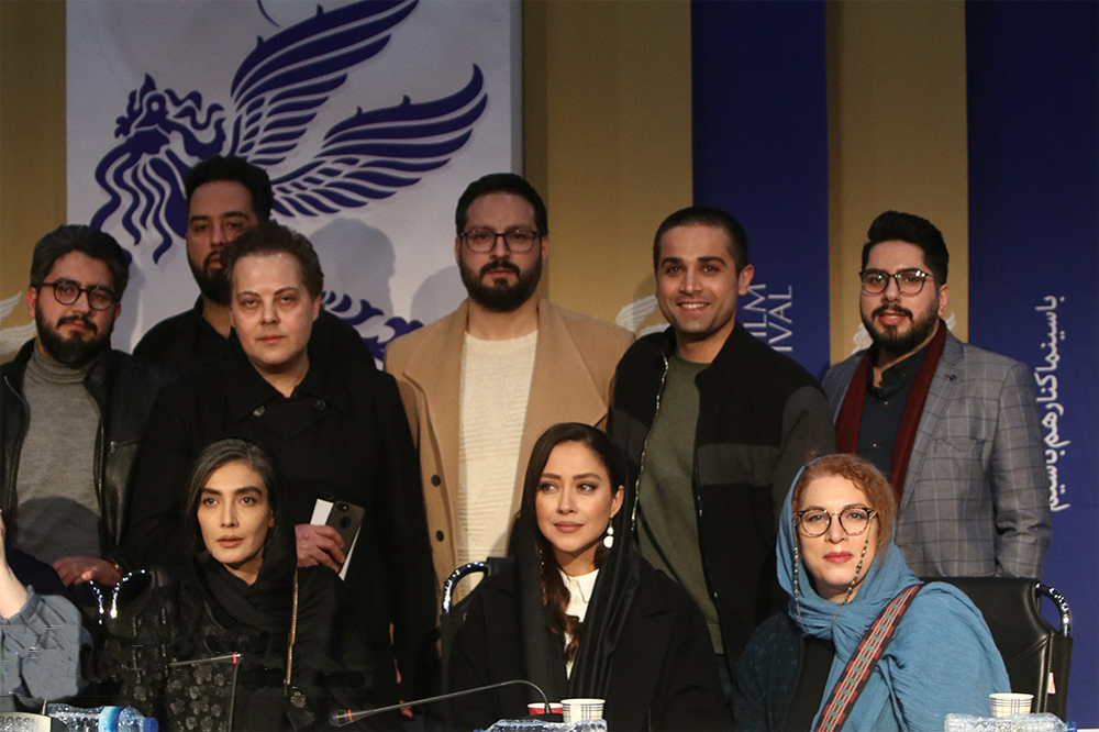 Filicide movie press conference at the 38th edition of the Fajr Film Festival at Mellat cineplex